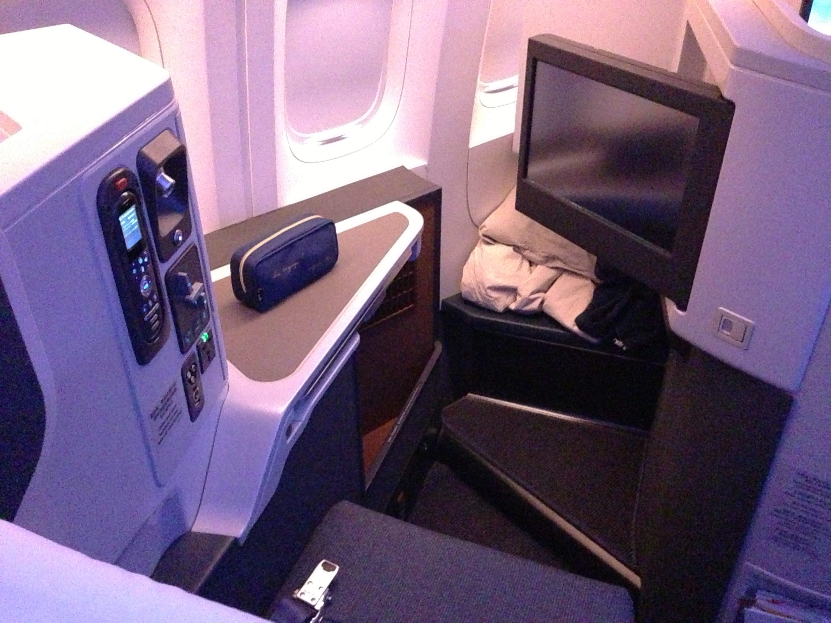 A business class seat onboard a Cathay Pacific B777-300ER.